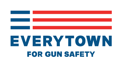 Everytown for Gun Safety logo